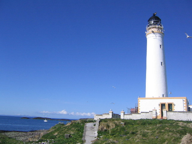 Oigh Sgier. Island of Hyskeir (Oigh Sgier) showing lighthouse (built in 1904 - by Stevenson family). Basaltic rocks visible in the distance. Island is covered by ground nesting seabirds.